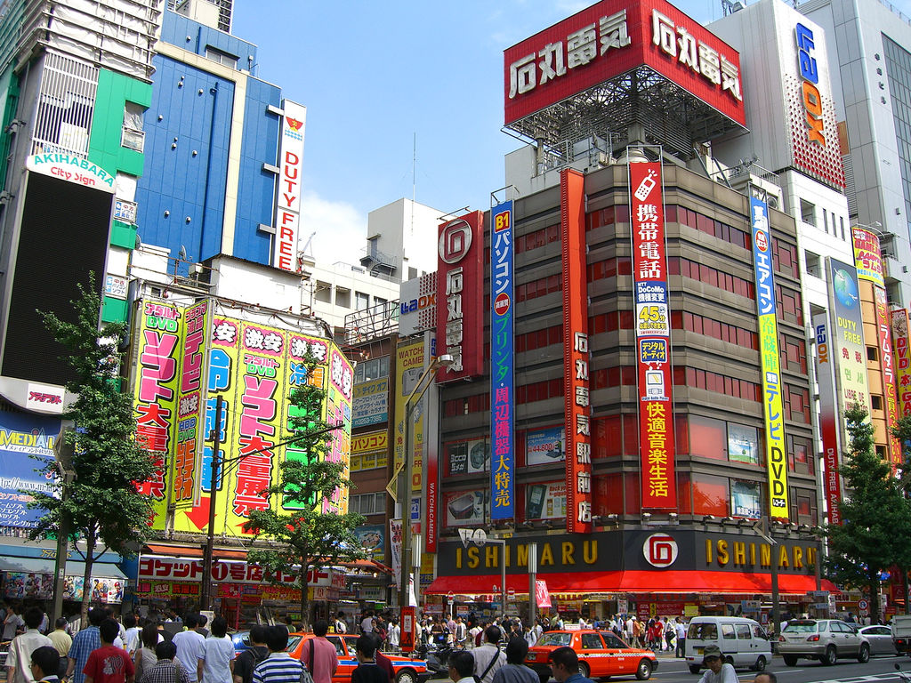 Akihabara Electric Town